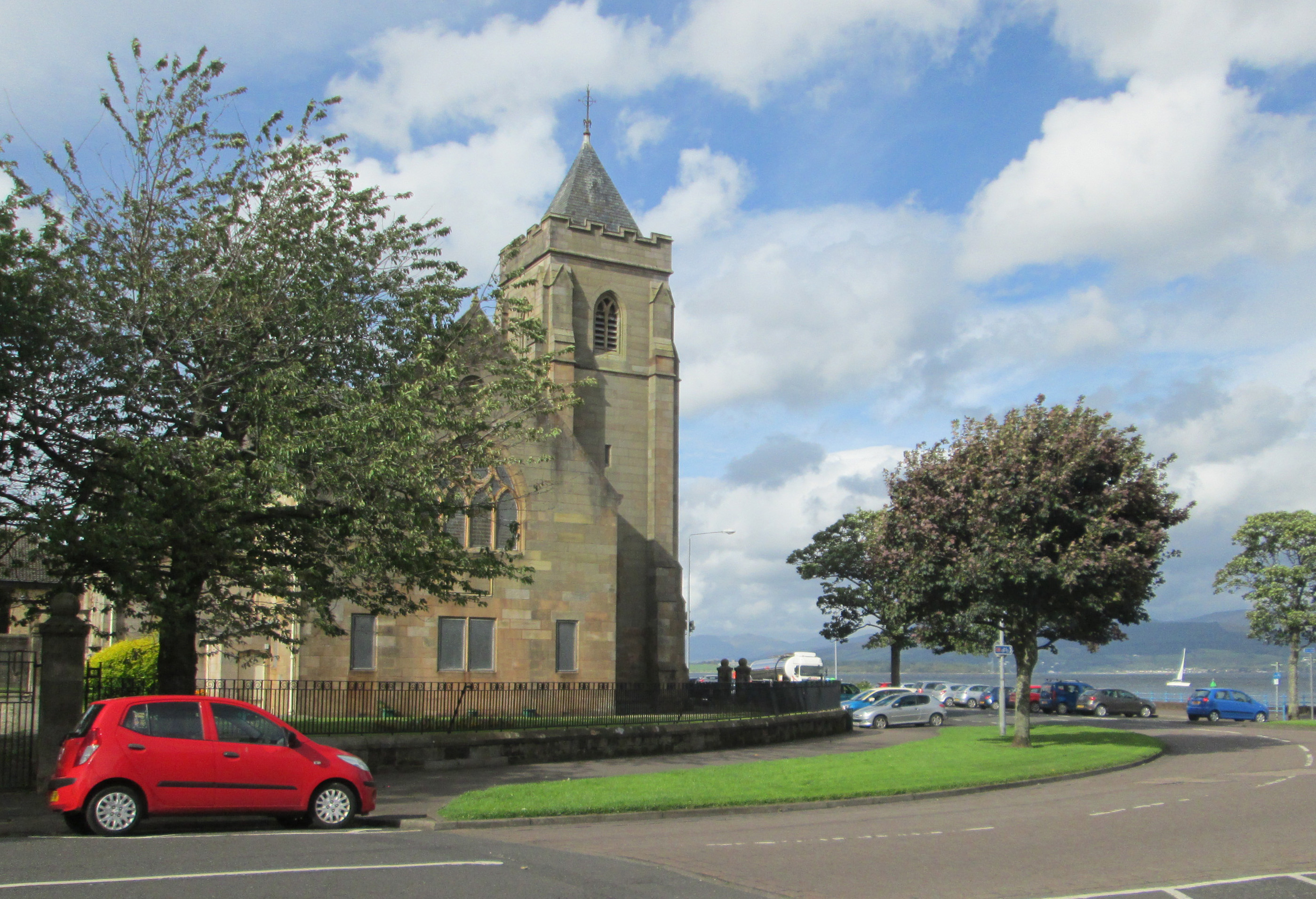 The Old West Kirk in Greenock, reconstructed in 1926 on the corner of The Esplanade, seen from across Campbell Street